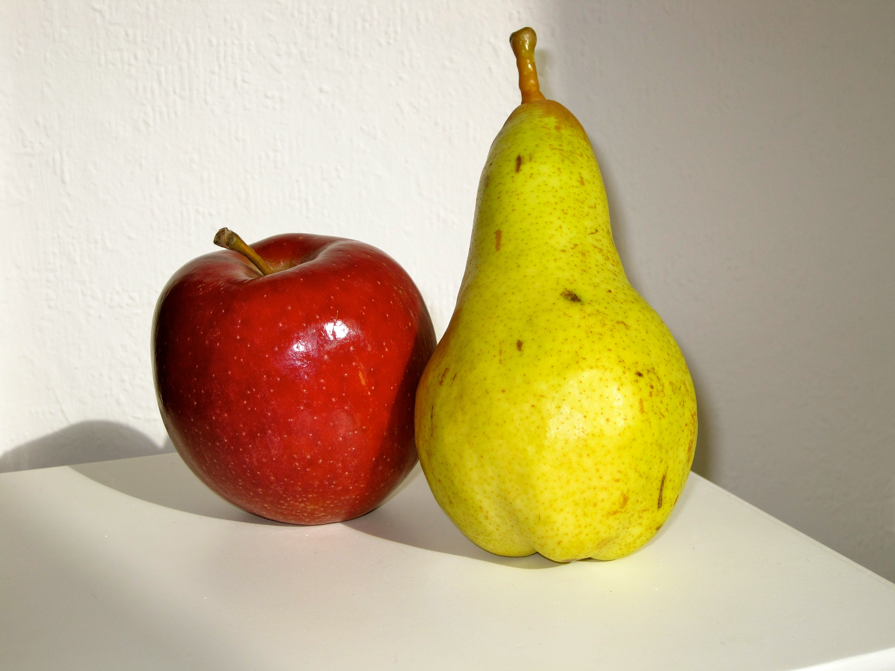 Photograph showing a red apple together with a yellow-green pear. This kind of image is commonly used to visualize an idiomatic expression in many germanic languages for a comparison of (two) unequal things. In English, the expression "comparing apples with oranges" is used instead.